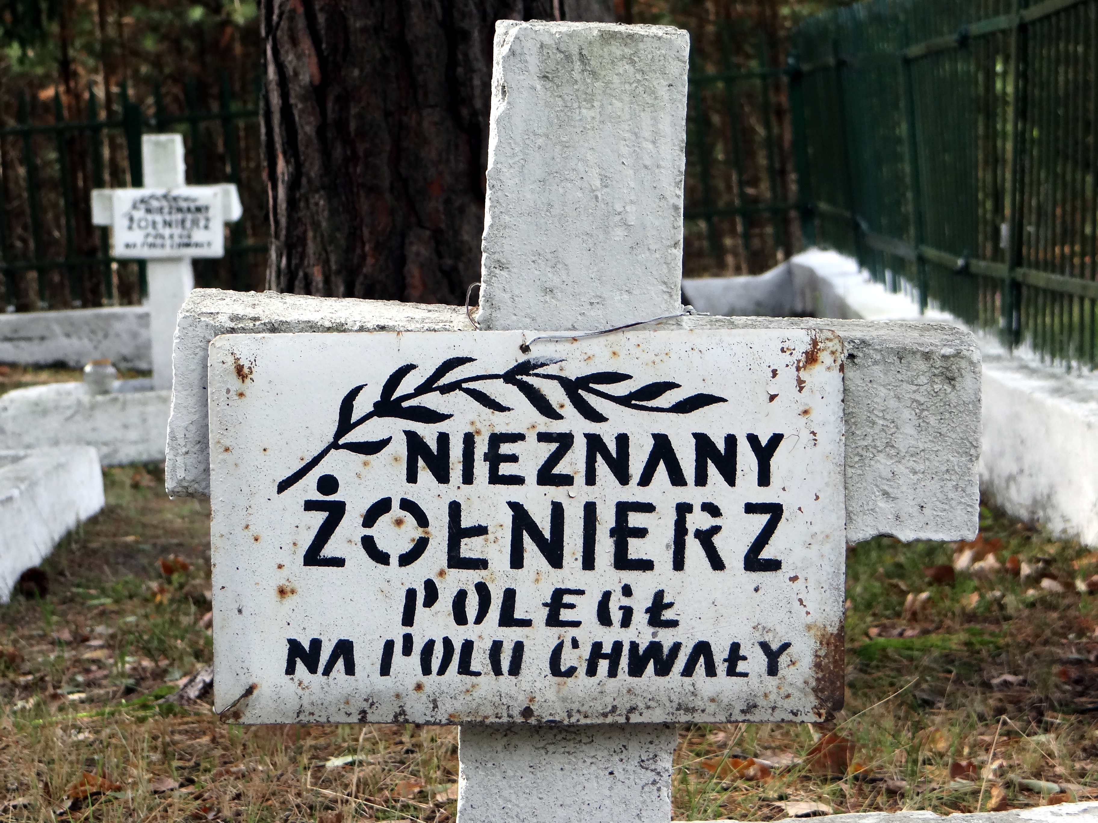 I and II World War cemetery in Harasiuki, subcarpathian voivodeship